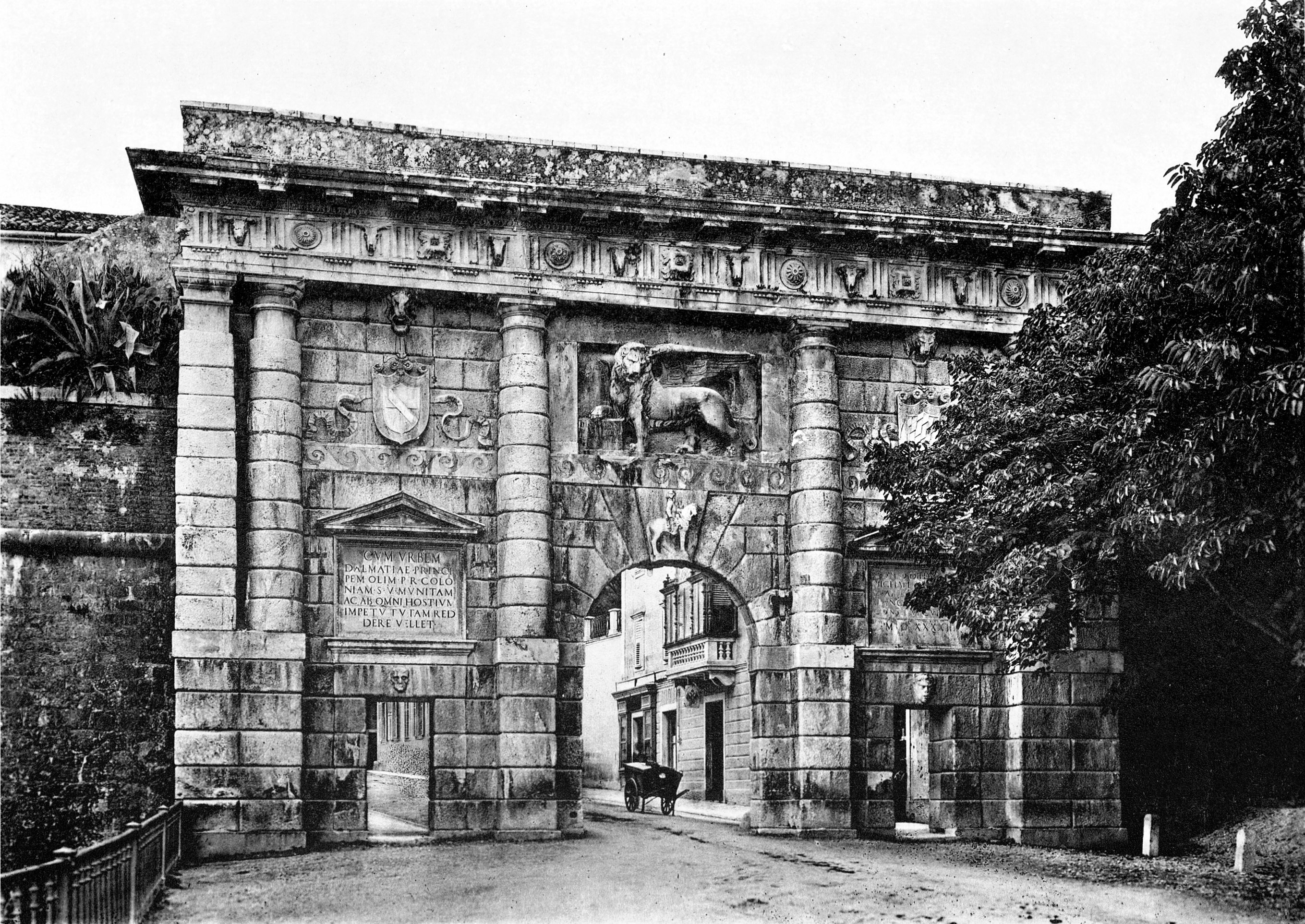 Denkmäler der Kunst in Dalmatien, Herausgegeben von Georg Kowalczyk, mit einer Einleitung von Cornelius Gurlitt. 132 Lichtdrucktafeln nach Naturaufnahmen des Herausgebers Georg Kowalczyk sowie nach Kupfern aus dem Werke von Robert Adam: Ruins of the Palace of the Emperor Diocletian at Spalat(r)o, 1764 Wien, 1910, Verlag von Franz Malota Scanprojekt Bundesdenkmalamt Österreich This scan or this PDF-file was created within the Austrian Wikipedia-project Denkmalpflege Österreich (German only) supported by Wikimedia Germany and Wikimedia Austria as part of the Wikipedia community-project to collect public domain documents from the library of the Heritage Monuments Board of Austria. This document describes or depicts an object which is located in Croatia today. Texts are written in German language. Send requests for uncompressed scans to Hubertl. This work is in the public domain in the United States, and those countries with a copyright term of life of the author plus 100 years or less. This file has been identified as being free of known restrictions under copyright law, including all related and neighboring rights.